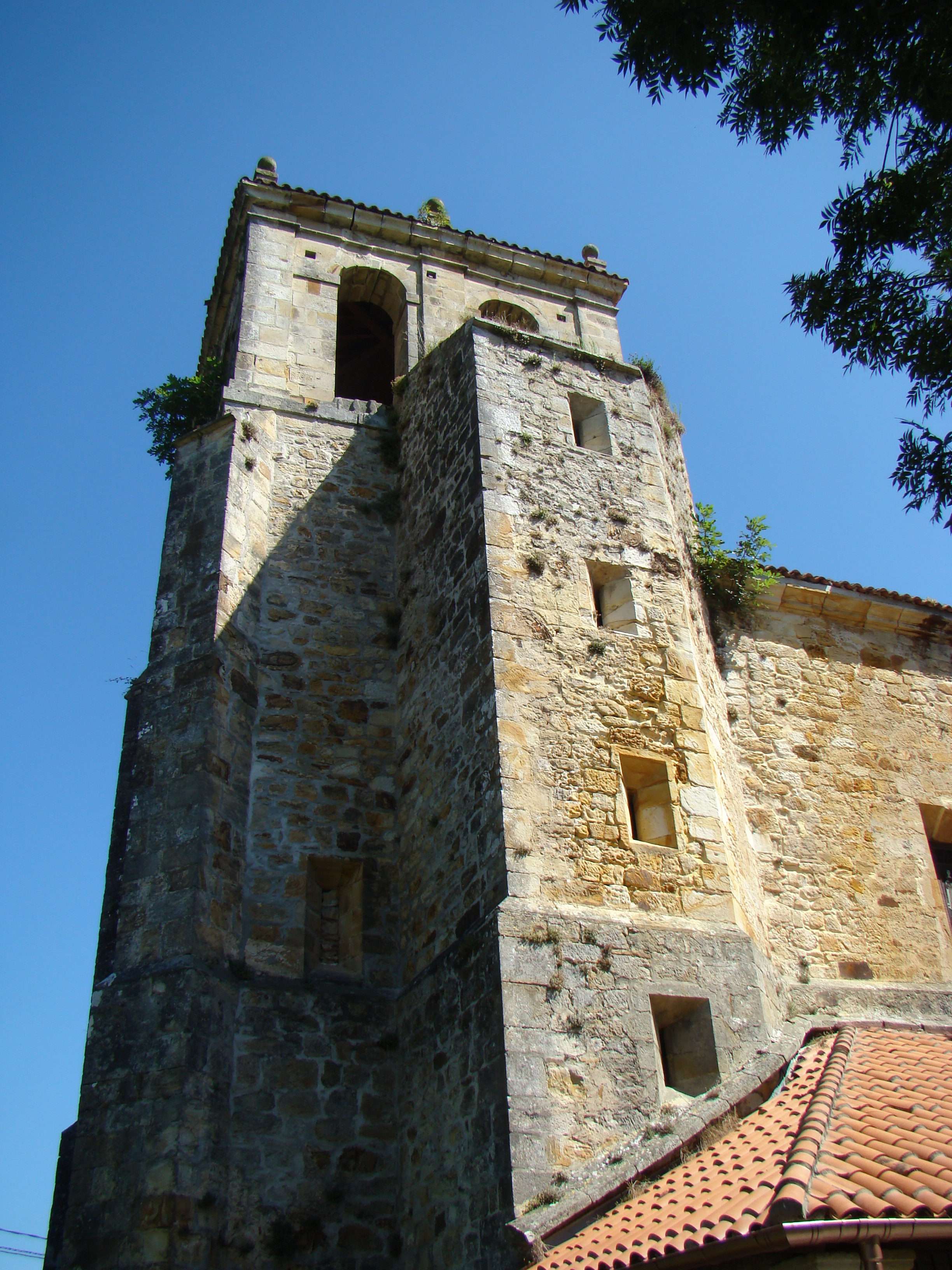 Tower of San pelayo church in Cicero (Bárcena de Cicero), Cantabria, Spain.